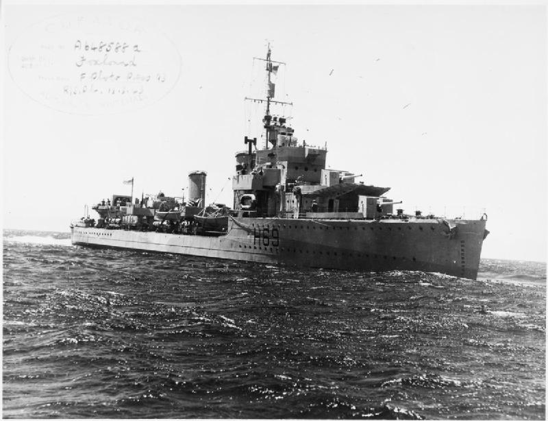 Photograph of British F class destroyer HMS Foxhound.